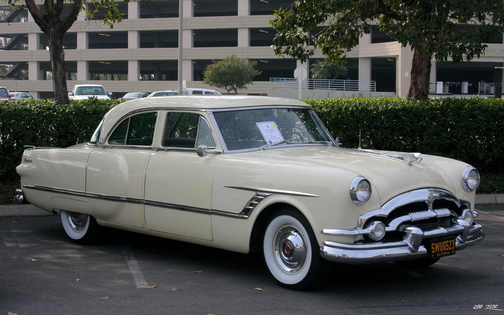 1953 Packard Cavalier Touring Sedan Model 2602-2672 at Packard Club meet at the Double Tree Hotel, Orange, CA, Jan 29, 2010